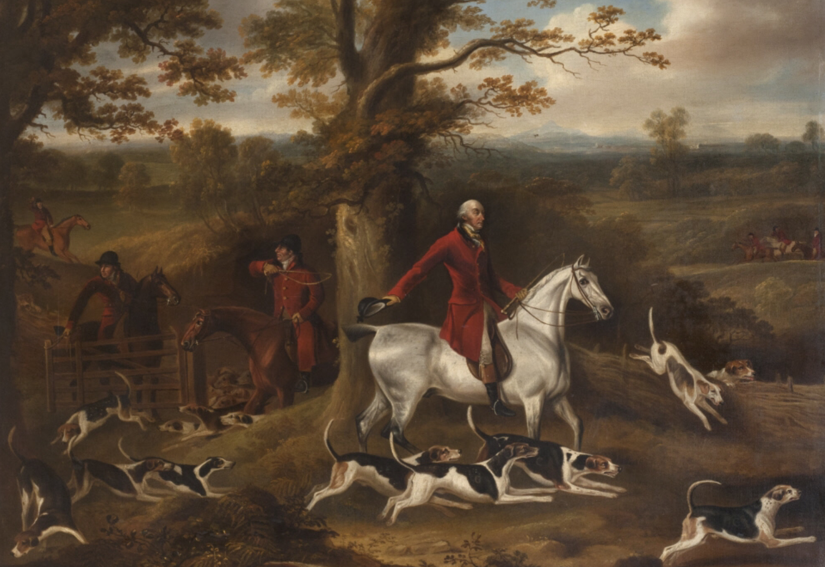 John Corbet is shown in the centre of the composition, with his huntsman, Will Barrow, and a hunt servant at the gate. John Corbet of Sundorne Castle took up the role of Master of the Warwickshire Hunt in 1791. He was known as ‘Father of the Trojans’, a reference to the famous hound in his pack, who is said to be the leading dog in the picture. In 1811 he was succeeded in the mastership by the 6th Lord Middleton, who paid 1,200 guineas for the pack. The fact that the picture is dated 1812 and was in the collection of Lord Middleton may imply that it was commissioned as a portrait to commemorate Courbet’s association with the hunt.